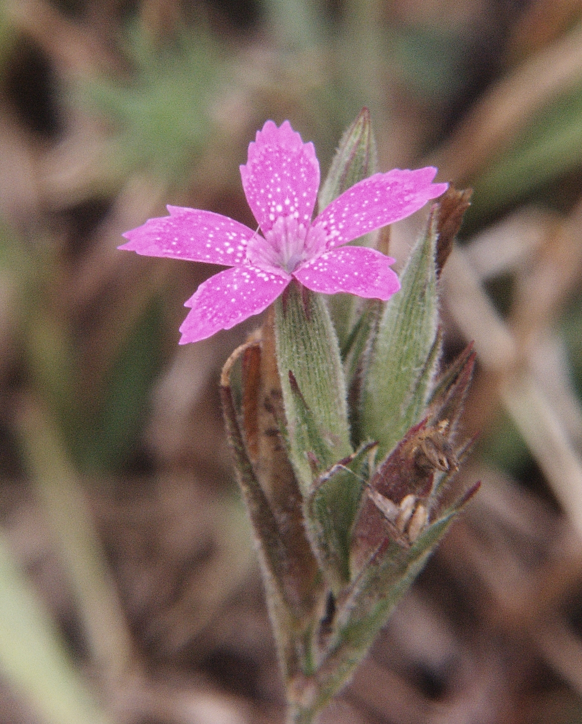 Dianthus armeria, Frankenhöhe, Germany